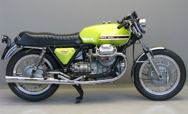 Moto Guzzi V 7 Sport Motorcycle from 1972.